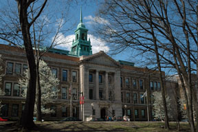 Simmons College Main Campus Building Images courtesy of the Simmons College Office of the Vice President for Marketing.